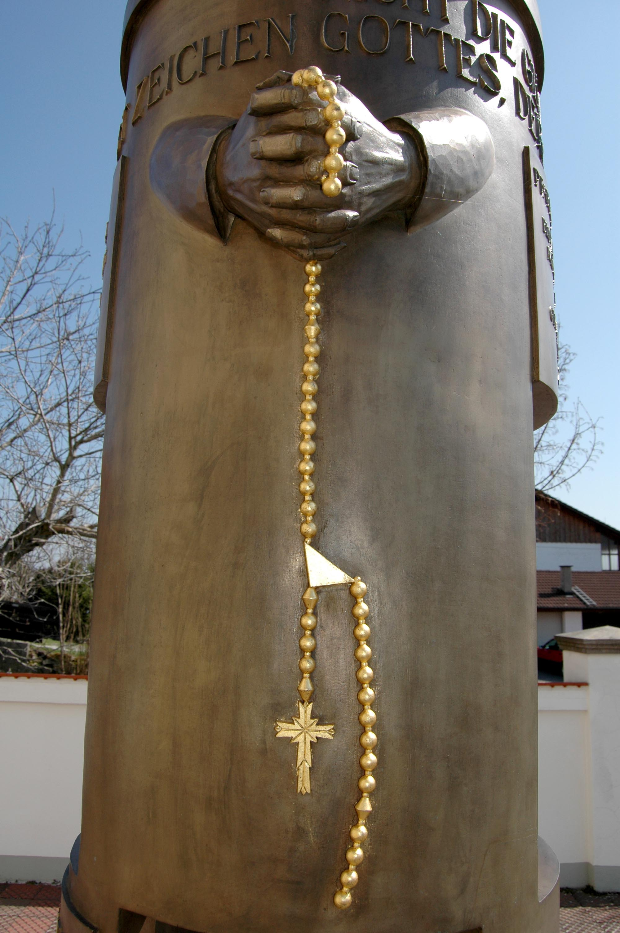 Grimm Hangl Memorial Bruckmuehl - Detail "Grimm"